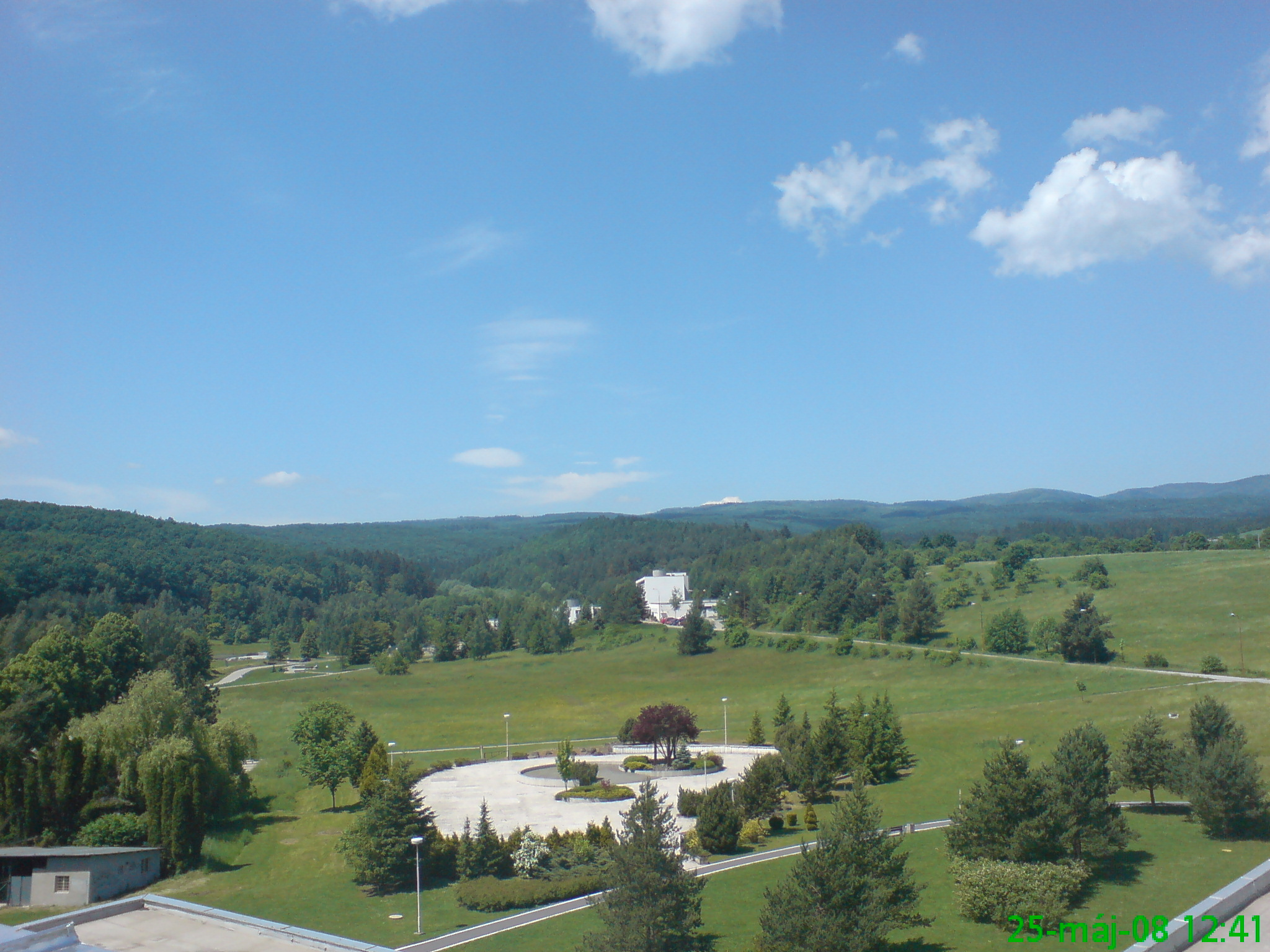 Areál